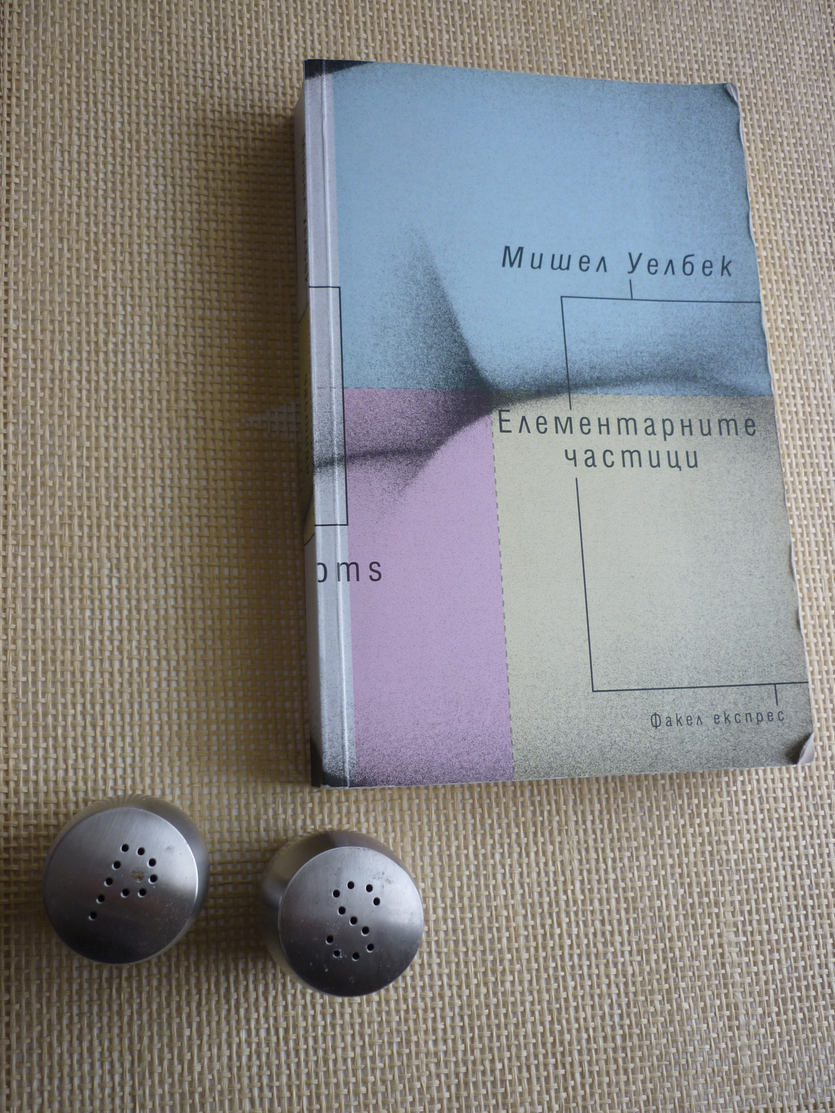 Still life with the Bulgarian edition of Les Particules elementaires by Michel Houellebecq.